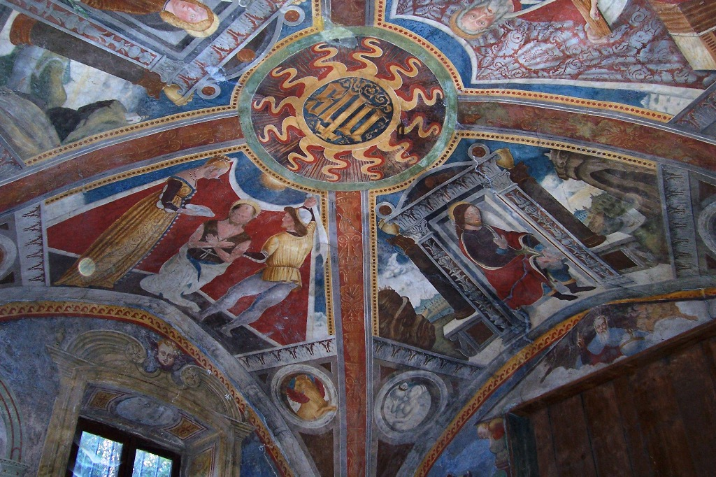 Decapitation of st John (left), st Rocco (right), SS Trinity, Esine, Val Camonica